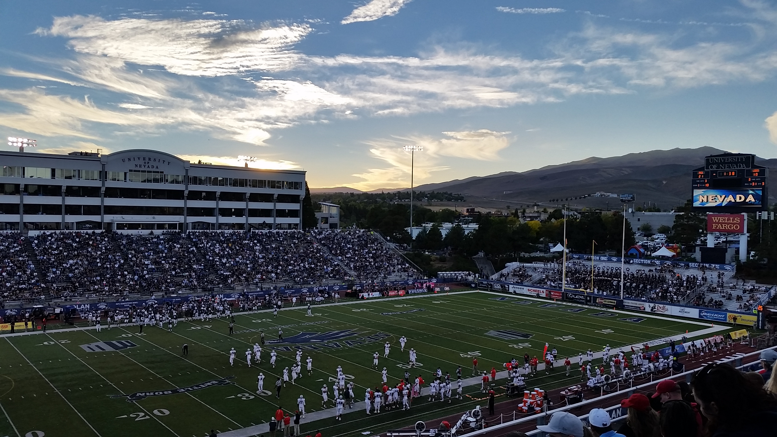 This is a view from the upper Southeast corner during a 2015 Wolf Pack football game.